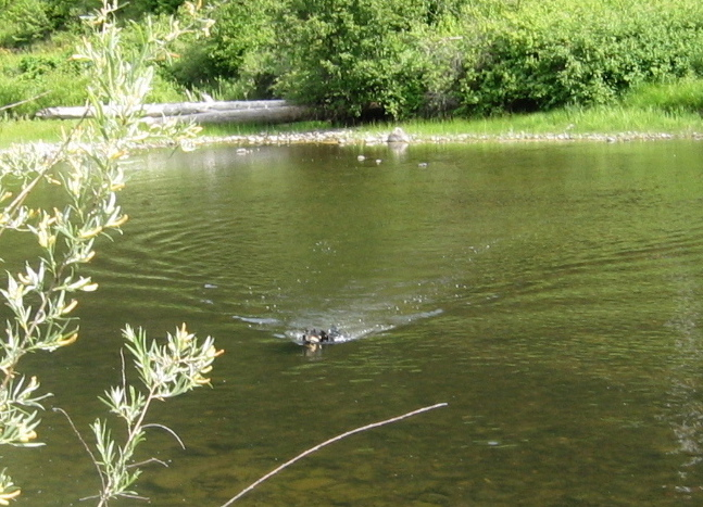 Grande Ronde River flowing next to the Hilgard Junction State Recreation Area off Interstate 84 at its intersection with Highway 244.